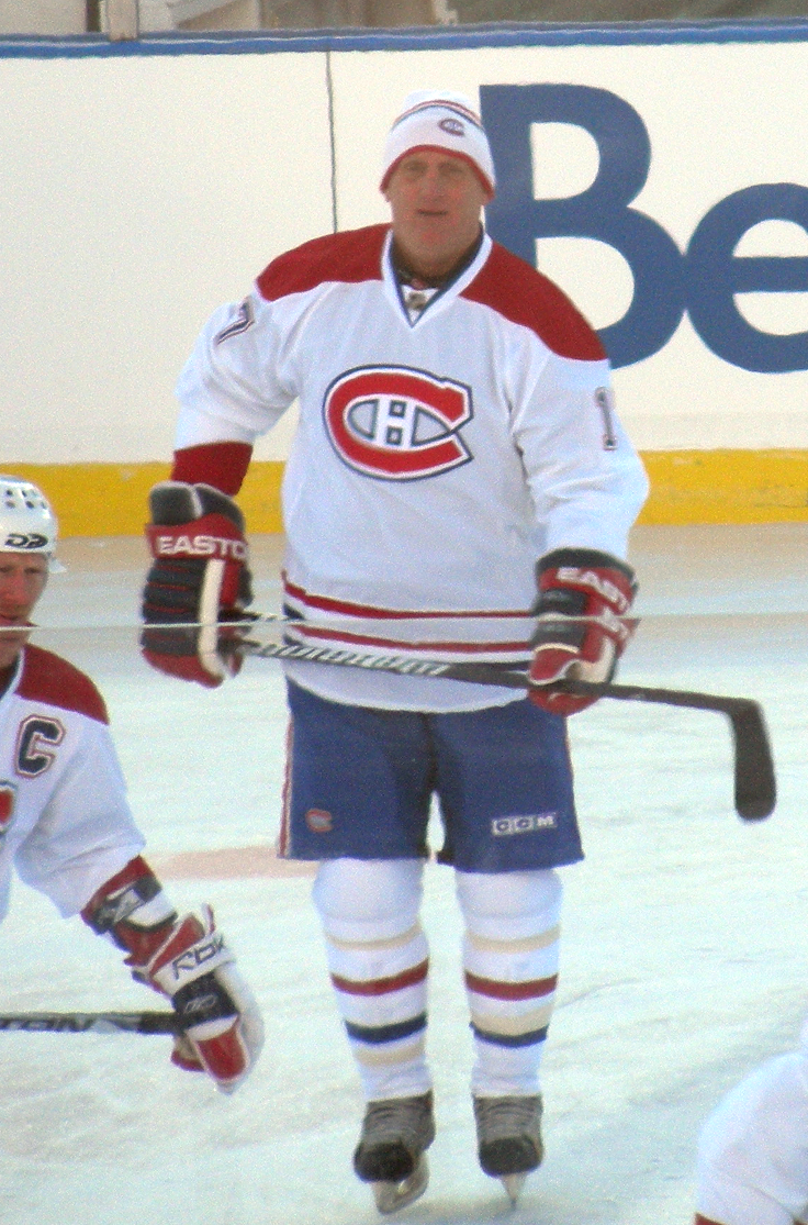 Former NHL player Craig Ludwig during the alumni game at the 2011 Heritage Classic in Calgary.